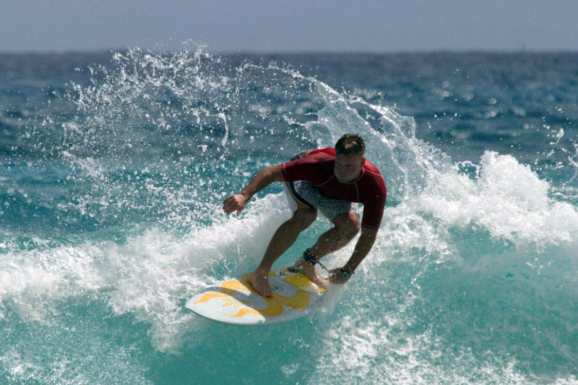 This image is identical to Image:Surfing in Hawaii.jpg, except this version has an sRGB profile embedded, for comparative use in the Colorfulness article. Original description: Surfing in Hawaii. A photograph of Kris Burmeister of the U.S. Marine Corps catching a wave during the first surfing contest of the year, the Pyramid Rock Surf Showdown. Photograph taken aboard the MCB Hawaii off the Marine Corps Base Hawaii in Kaneohe Bay.